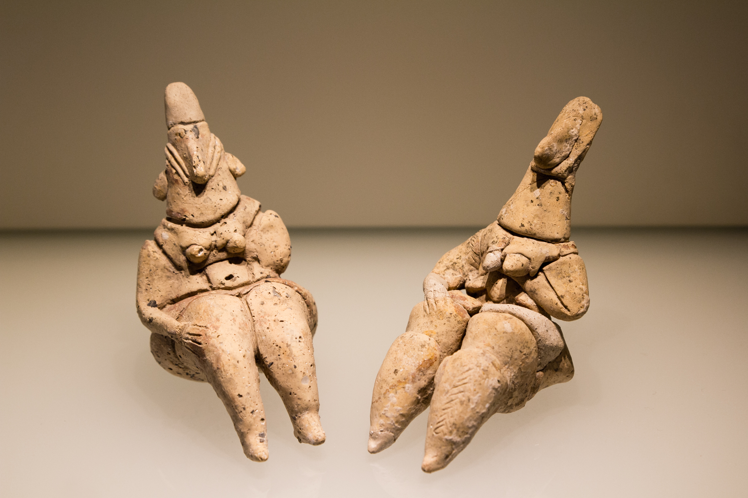 Yarmoukian culture figurines at the Israel Museum in Jerusalem